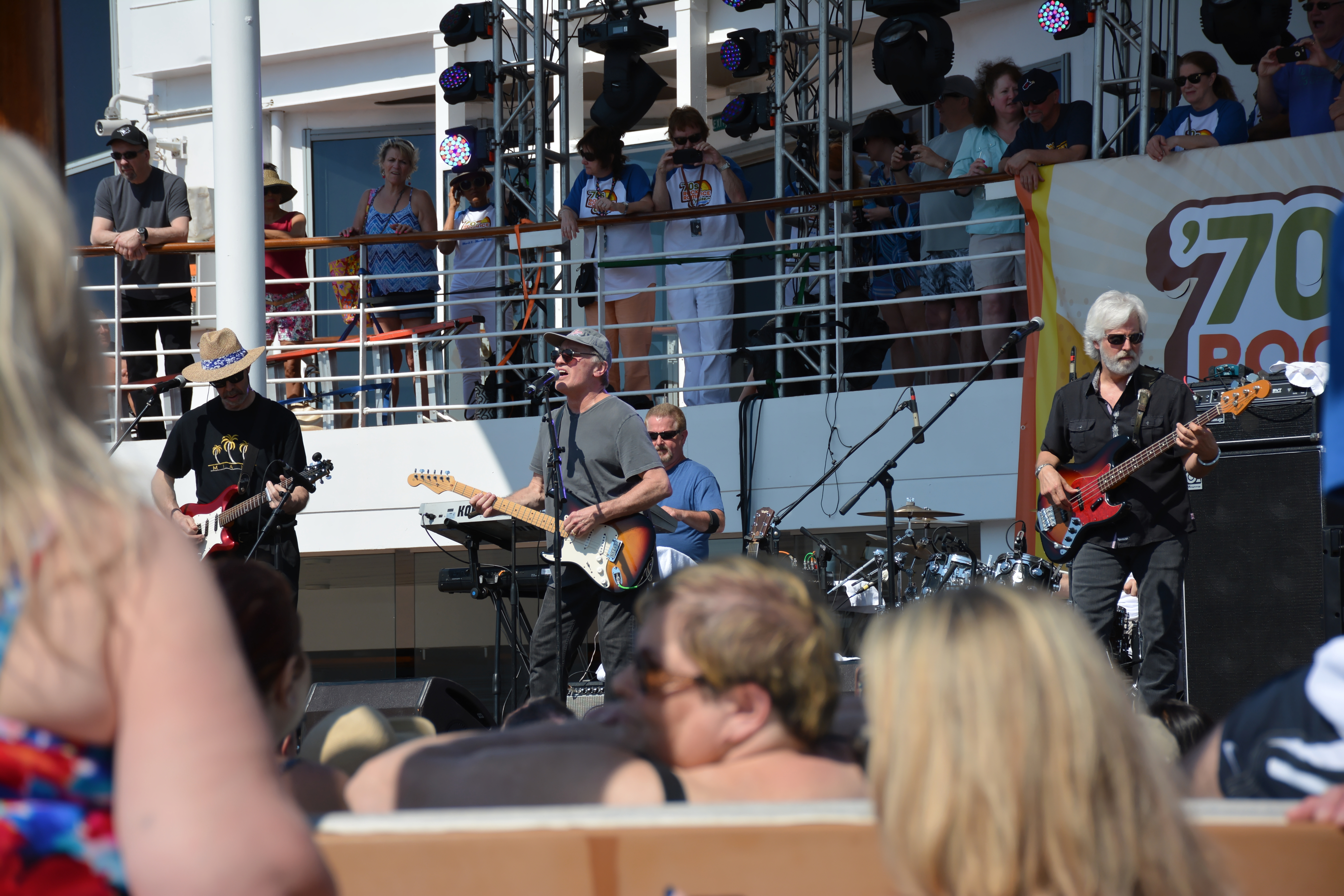 The group Orleans performing on March 12, 2017